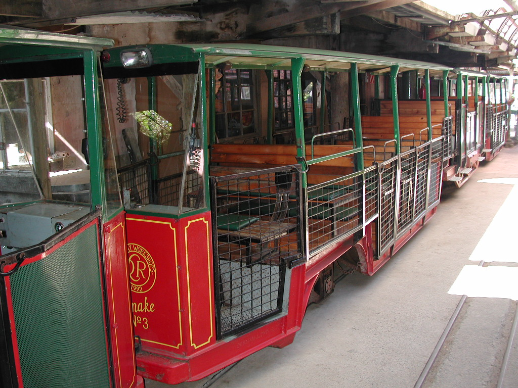 Driving Creek Railway carriages awaiting departure